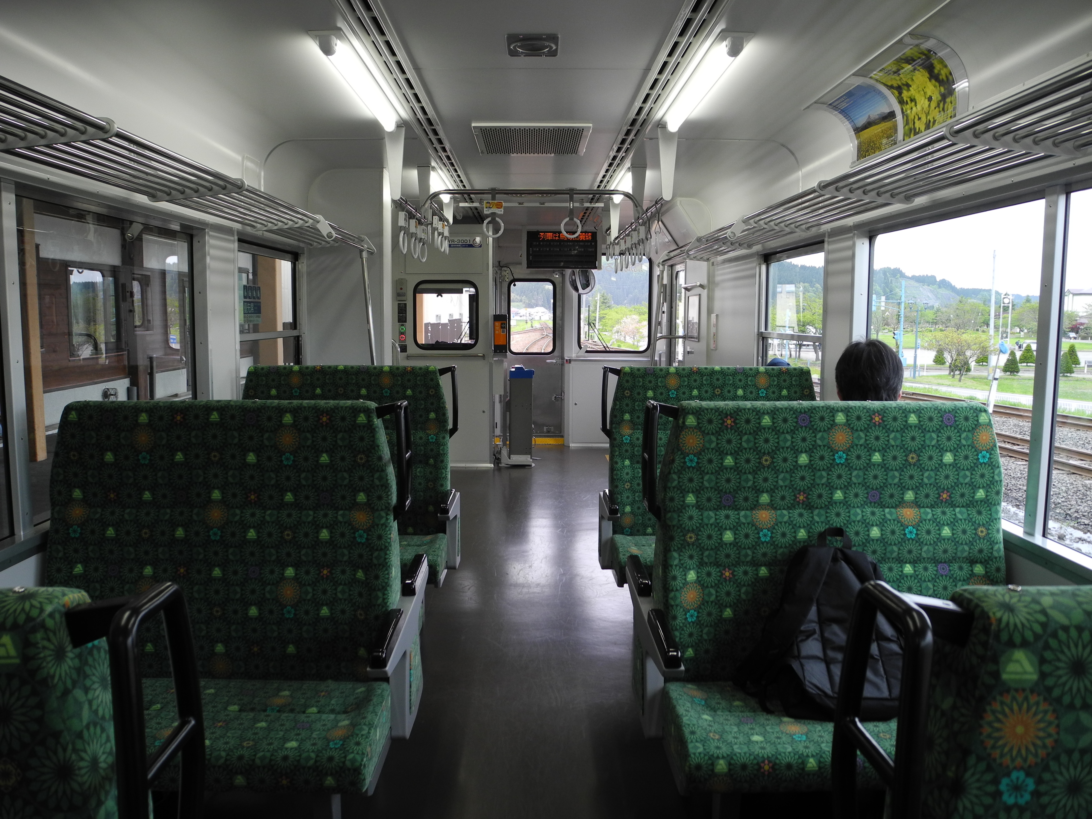 Interior of the Obako train. The Obako train at Yashima Station. The train here was purchased in late 2011 or early 2012. Yashima, Yurihonjo, Akita, Japan.